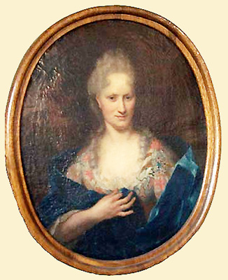 Portrait of Philippine Elisabeth Cäsar (1686-1744), wife of Anton Ulrich, Duke of Saxe-Meiningen